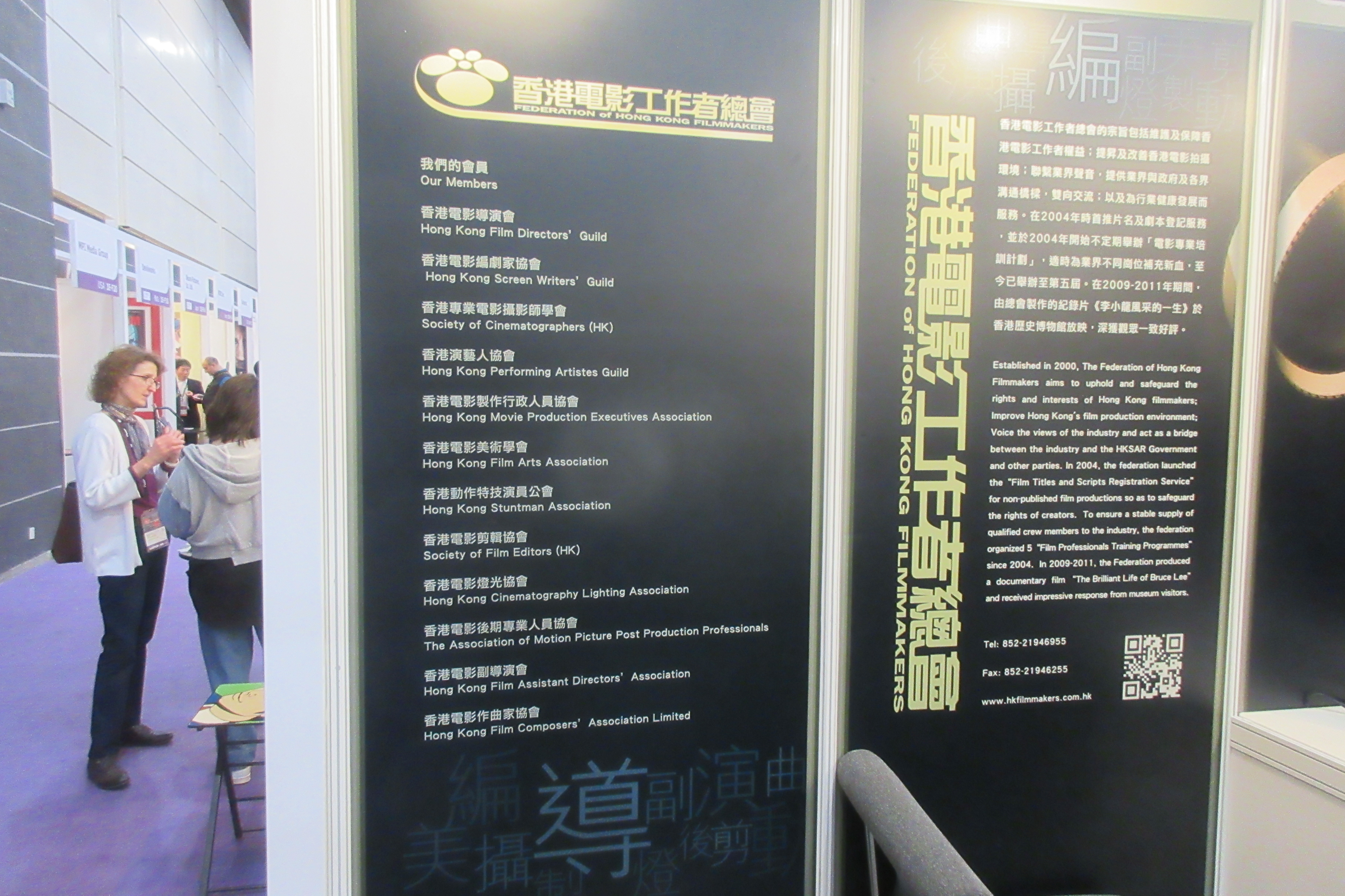 HKCEC 香港會議展覽中心 Wan Chai North 香港貿易發展局 HKTDC 香港影視娛樂博覽 Filmart in March 2019 香港電影工作者總會 Federation of Hong Kong Filmmakers